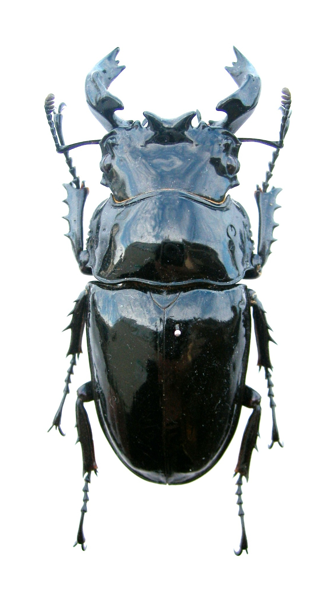 mesotopus tarandus